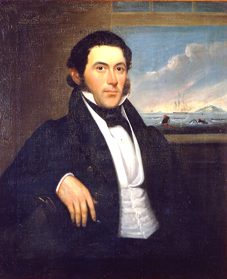 American captain Mercator Cooper, oil on canvas